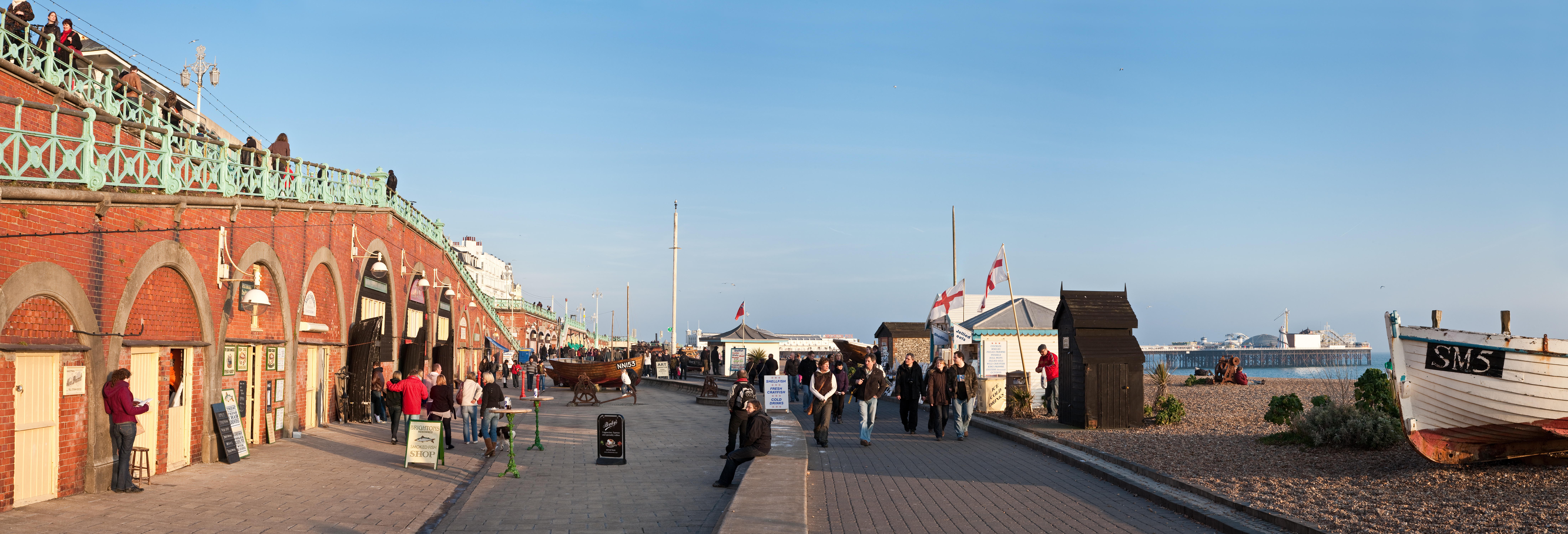 A panoramic view of the promenade in Brighton, England on a sunny winter's day.